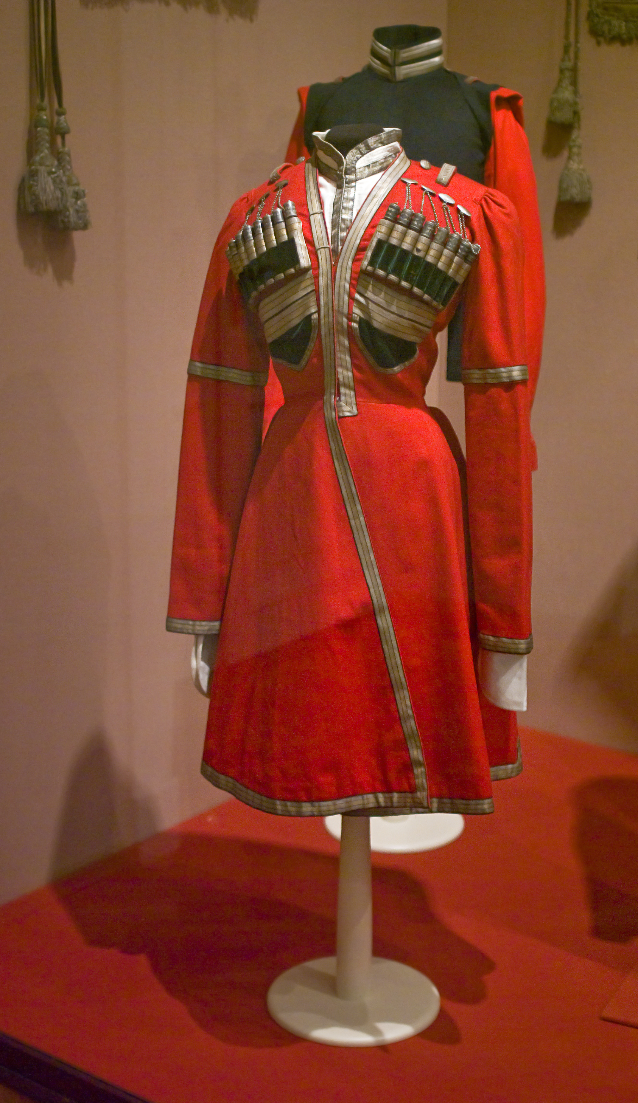 Officer's jacket of L-G Chernomorska Cossack Sotnia (company)